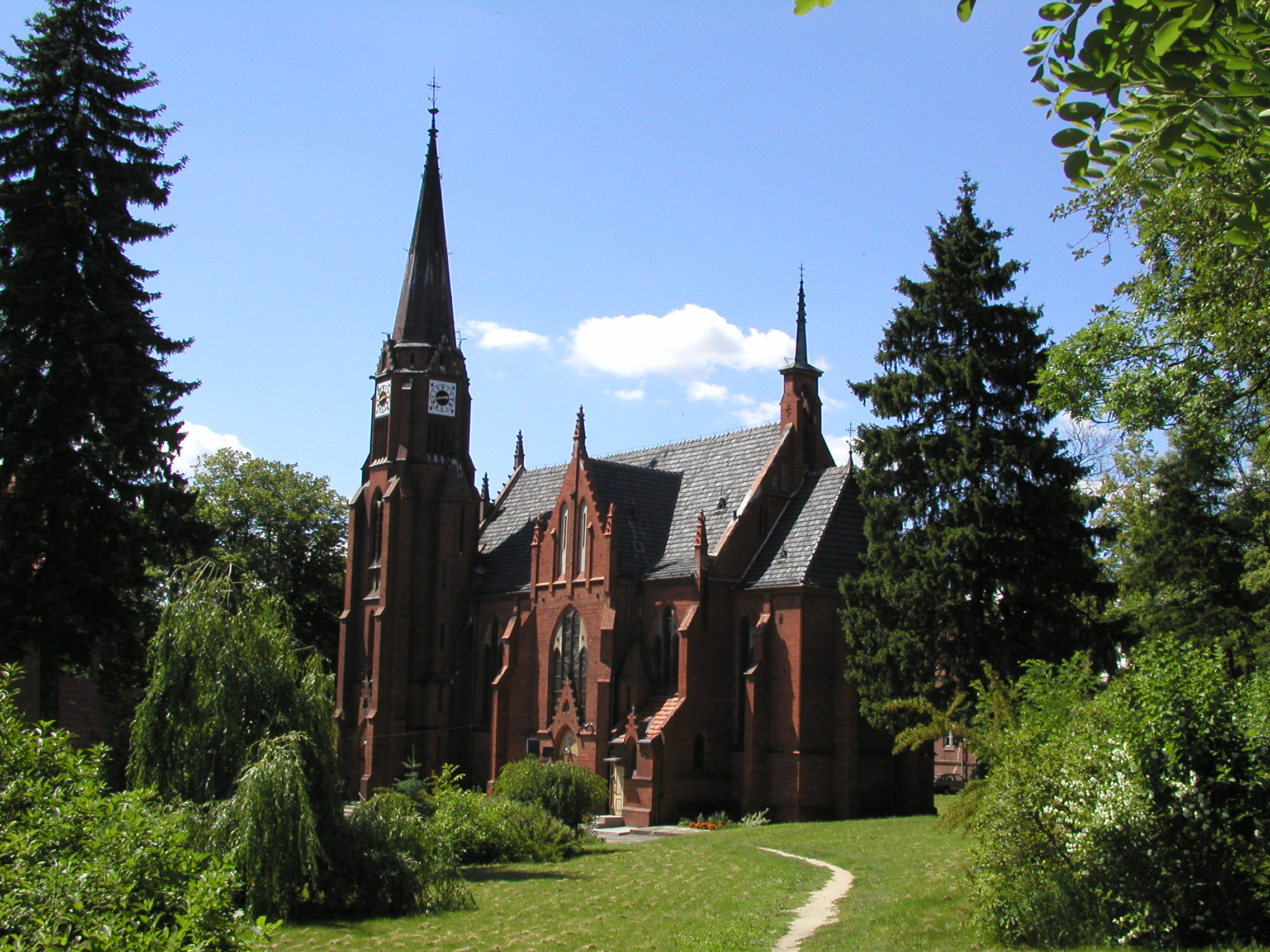 Parish church of Sacred Heart of Jesus in Oborniki Śląskie (Poland).